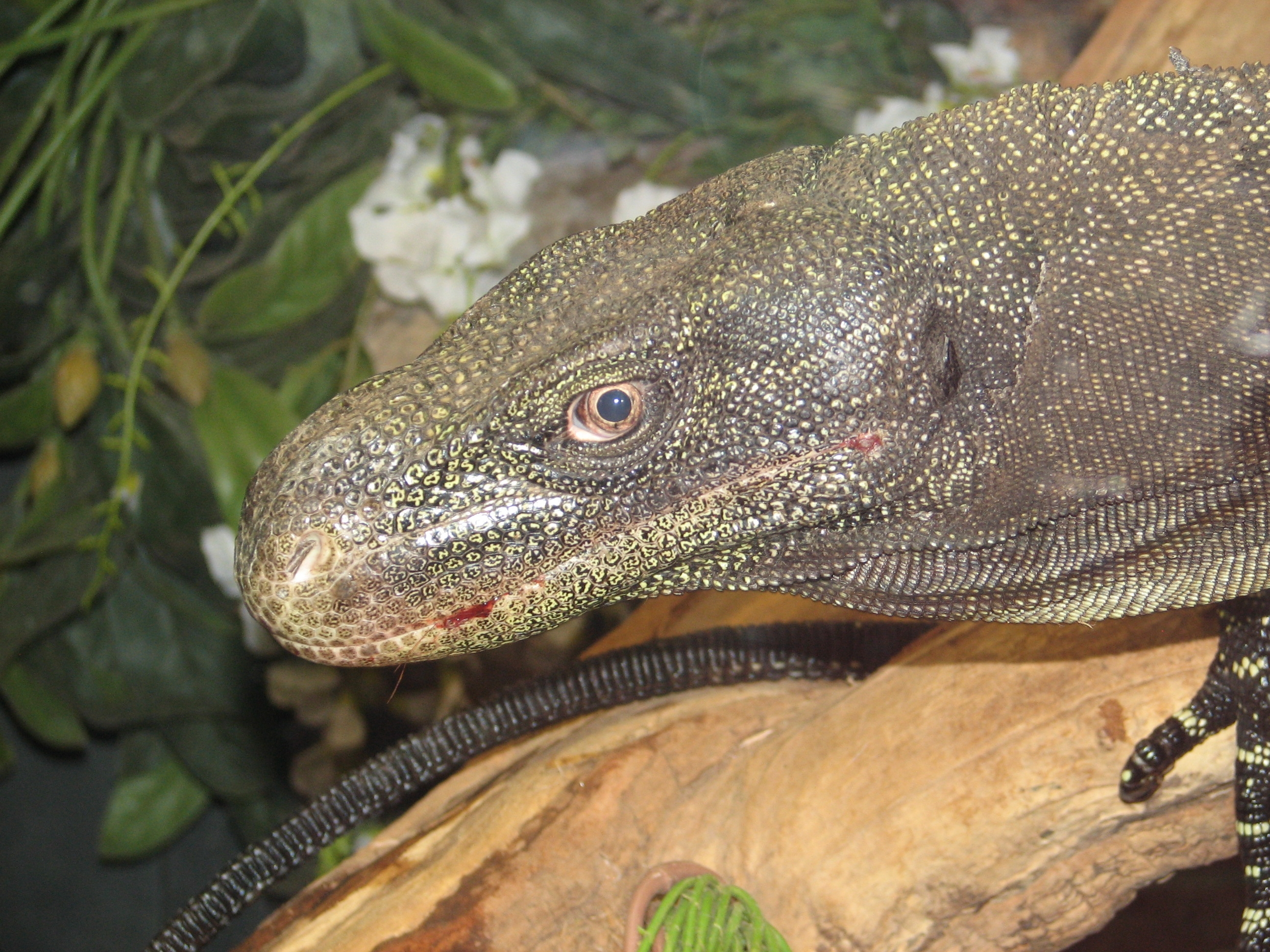 Crodile Monitor - Varanus salvadorii at Cincinnati Zoo